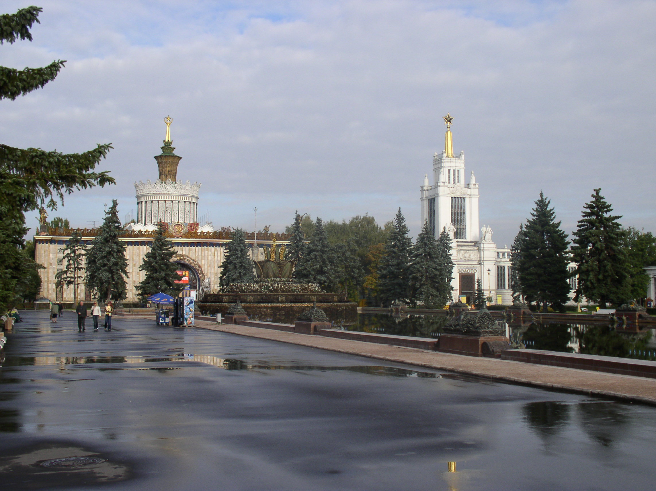 All-Russian Exhibition Center. Moscow, Russia.